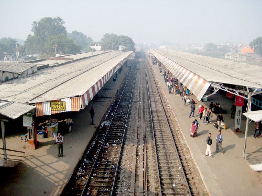 Basti Railway platform